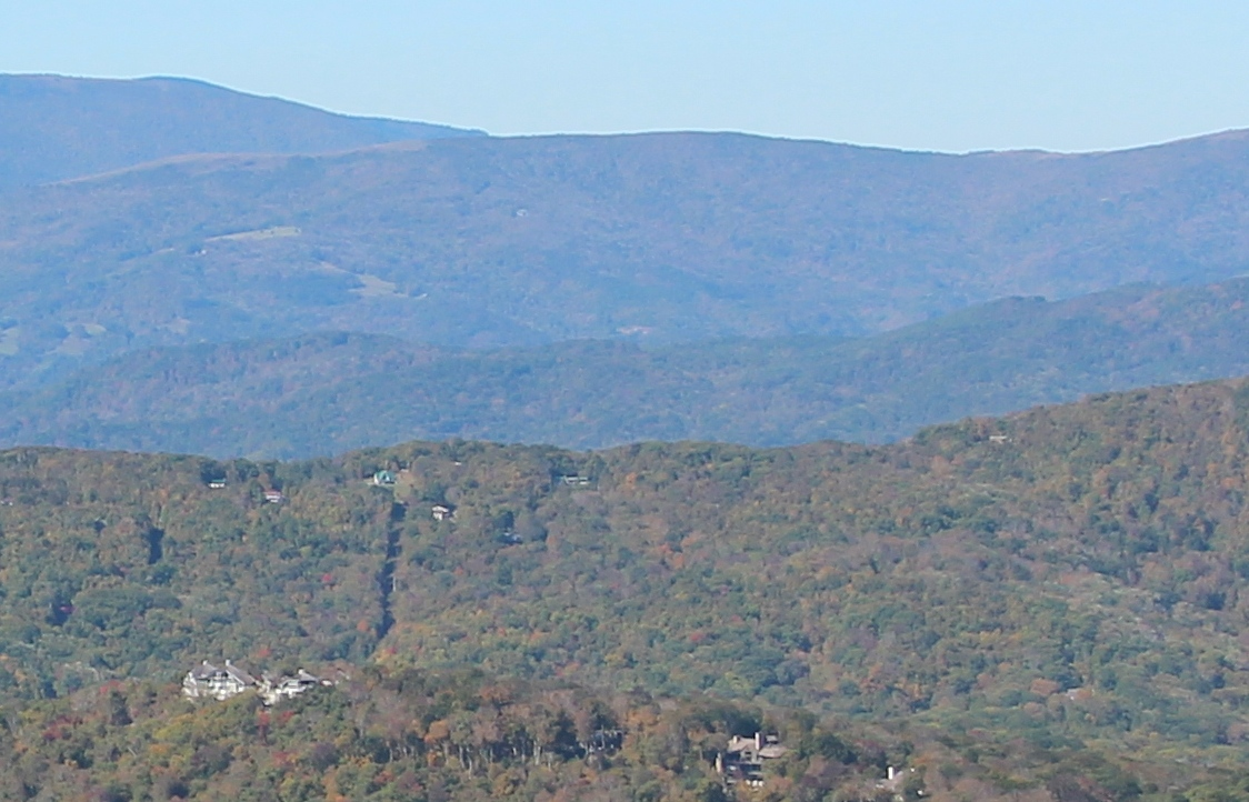 Big Yellow Mountain viewed from Grandfather Mountain, Oct 2016